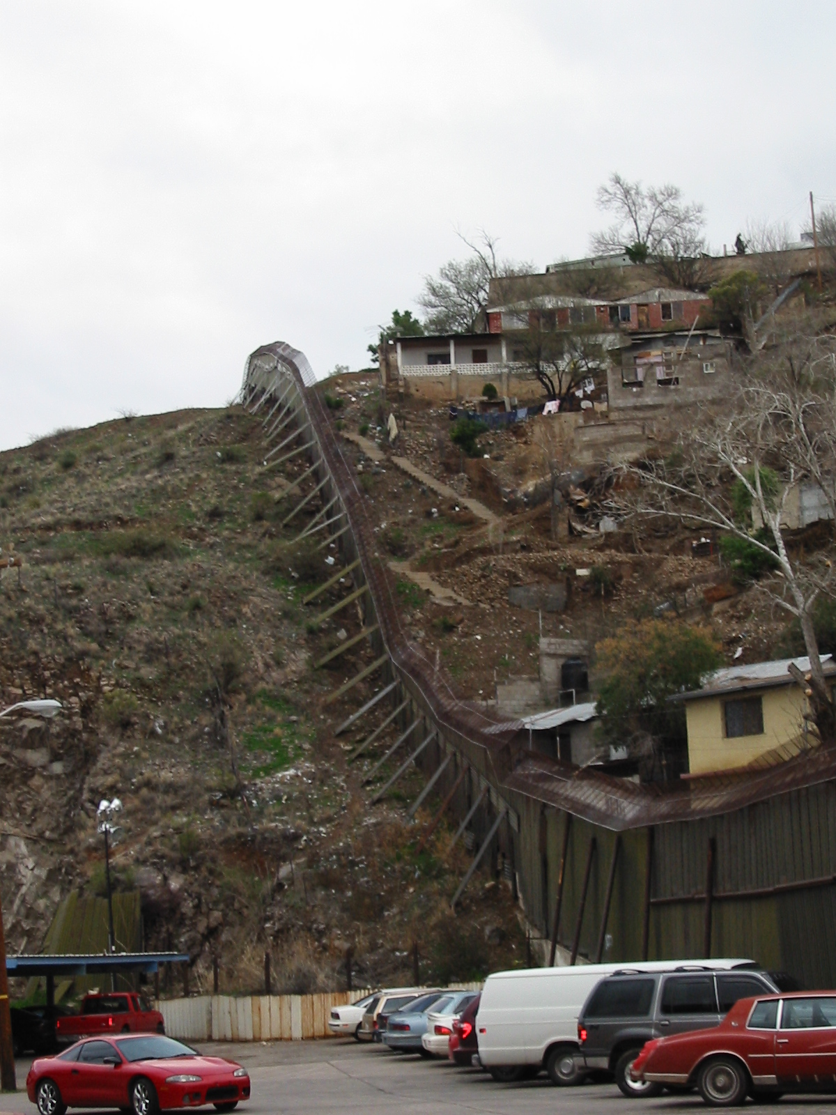 Picture of the US-Mexico Border, taken from Nogales, Arizona. The USA side of the border is on the left of the picture, while the Mexican side is on the right. The camera is pointed towards the east.